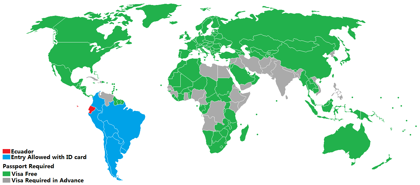 Visa policy of Ecuador Ecuador Entry allowed with ID card Visa-free Visa required in advance